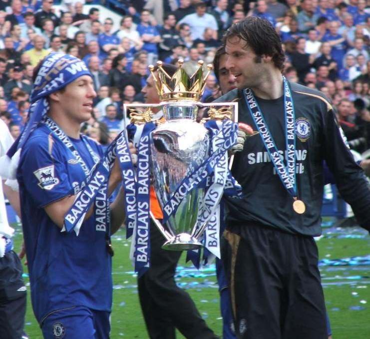 trophie for ChelseaManchester United vs Chelsea